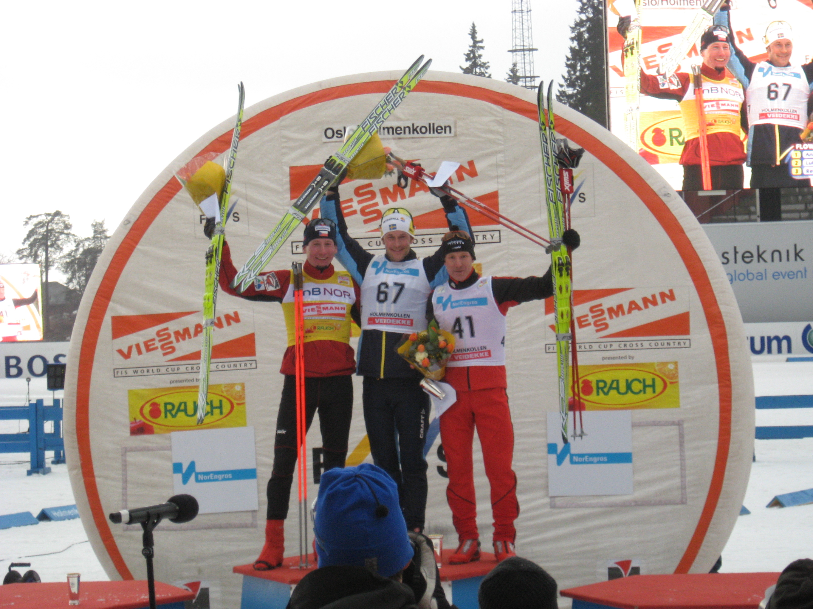 The top three at the men’s 50km. 1st. Anders Södergren (SWE) 2nd. Lukas Bauer (CZE) 3rd. Remo Fischer (SUI)